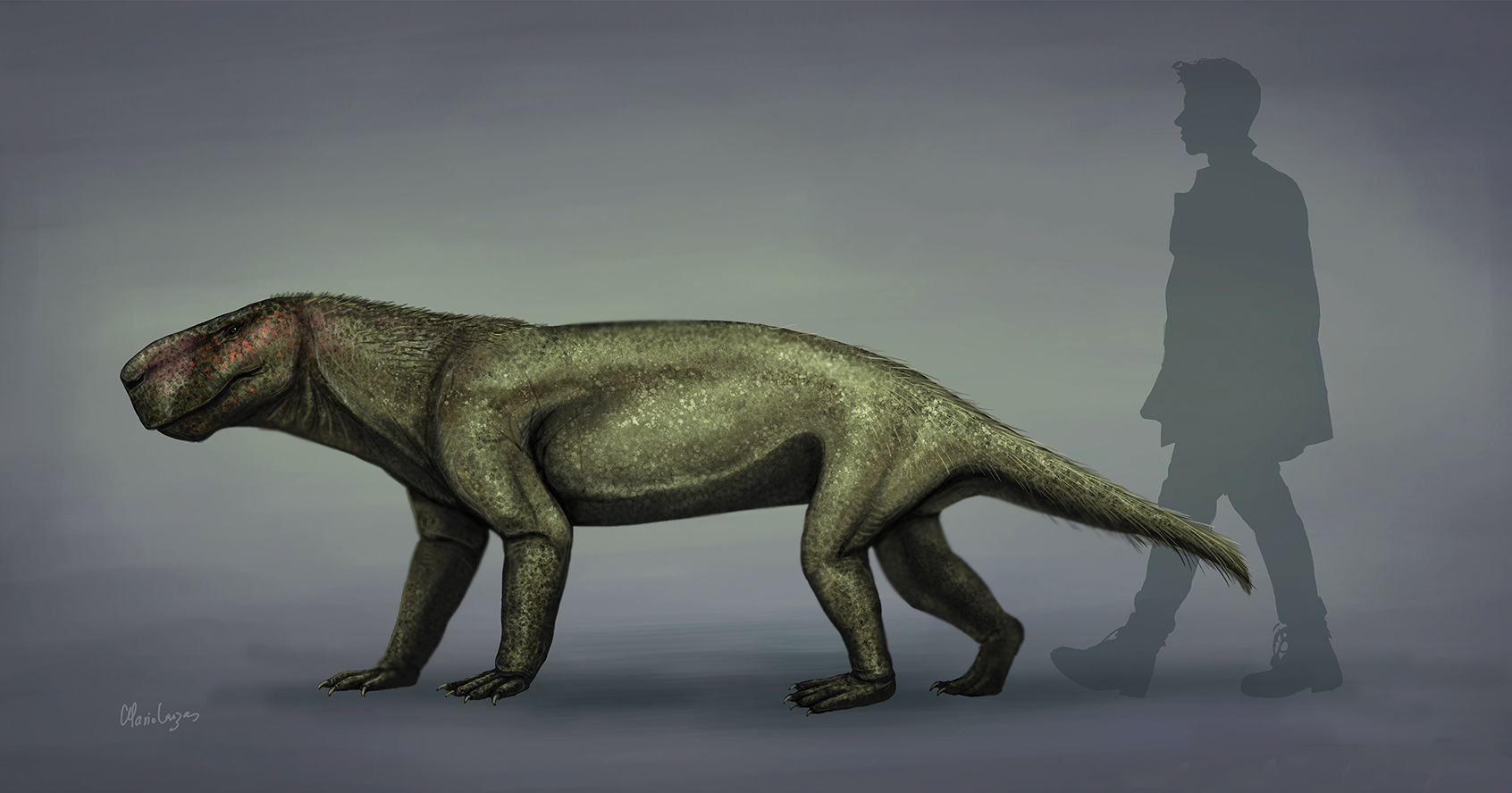 reconstruction of Inostrancevia by Mario Lanzas 2019